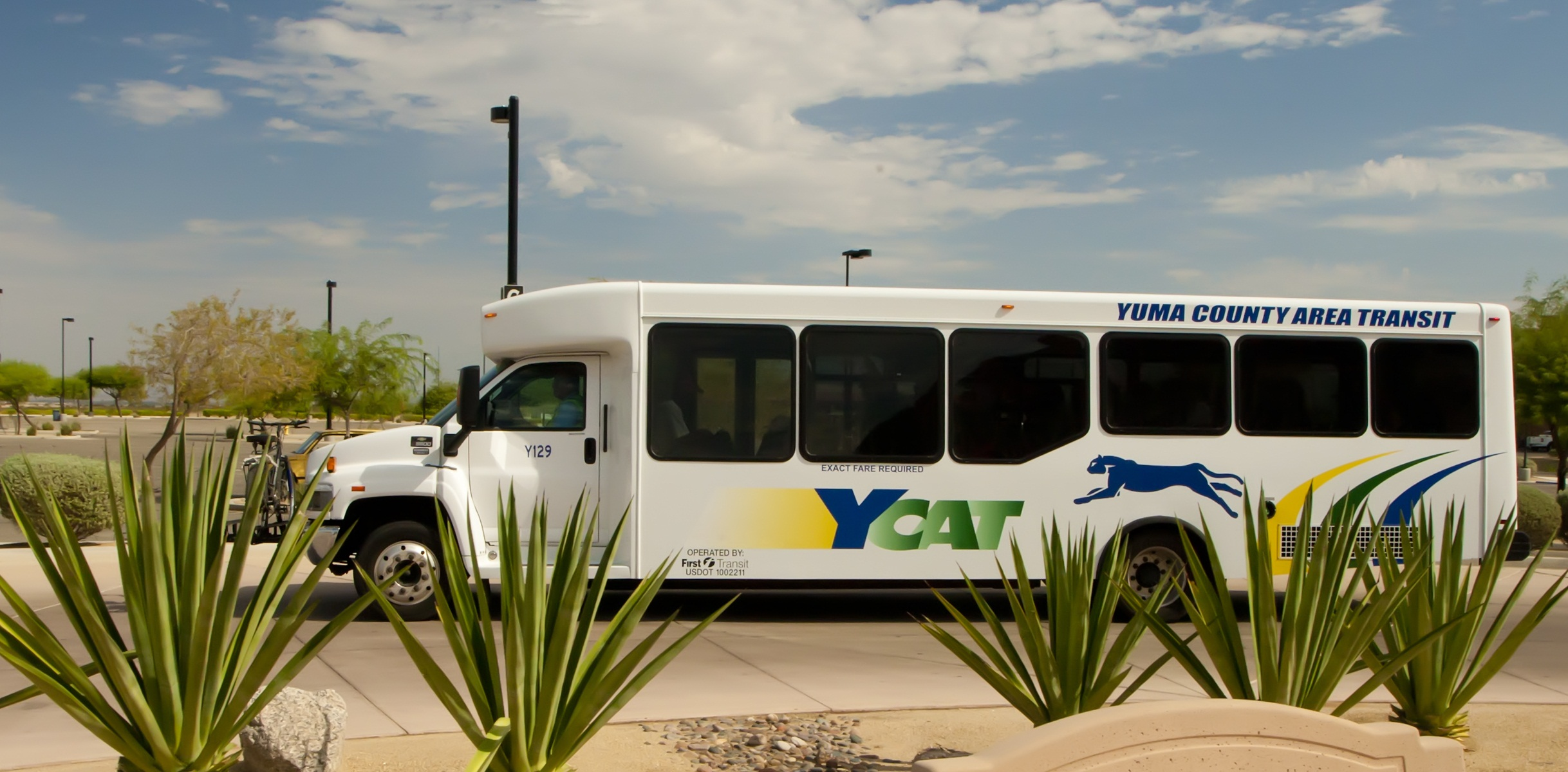 Typical YCAT bus with YCAT logo and colors, currently being used.